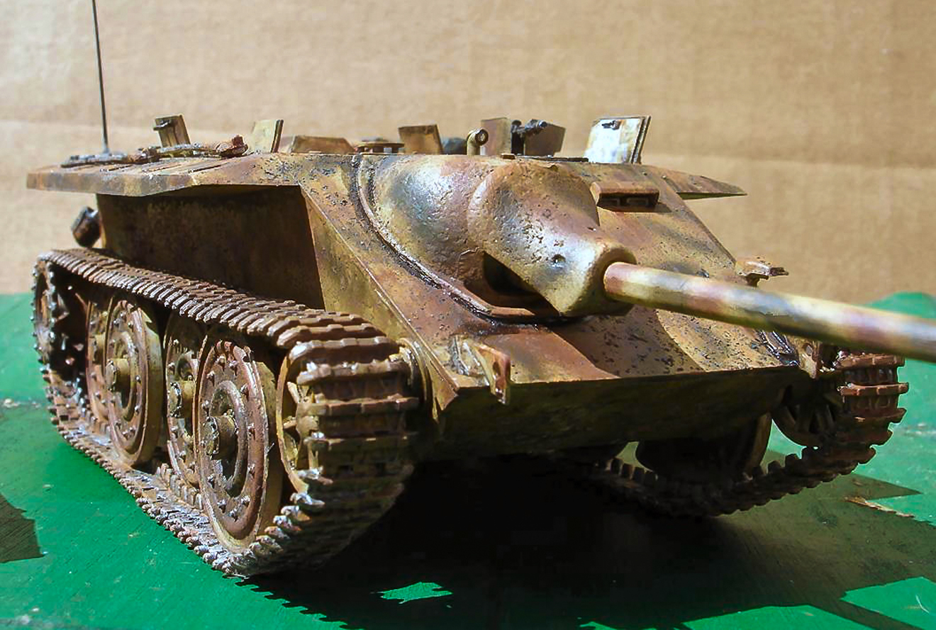 Trumpeter 1/35 scale model kit No 00385 By TDelCoro January 20, 2008